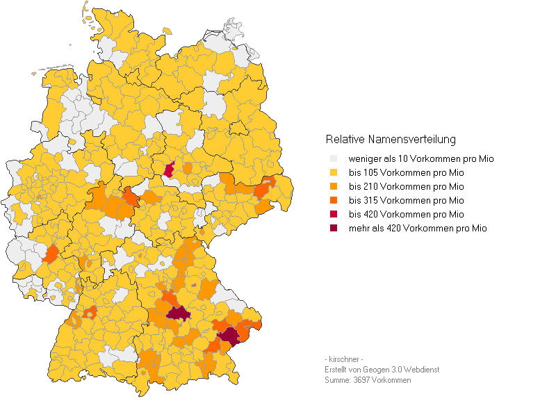 Genealogic map of the surname Kirschner in Germany